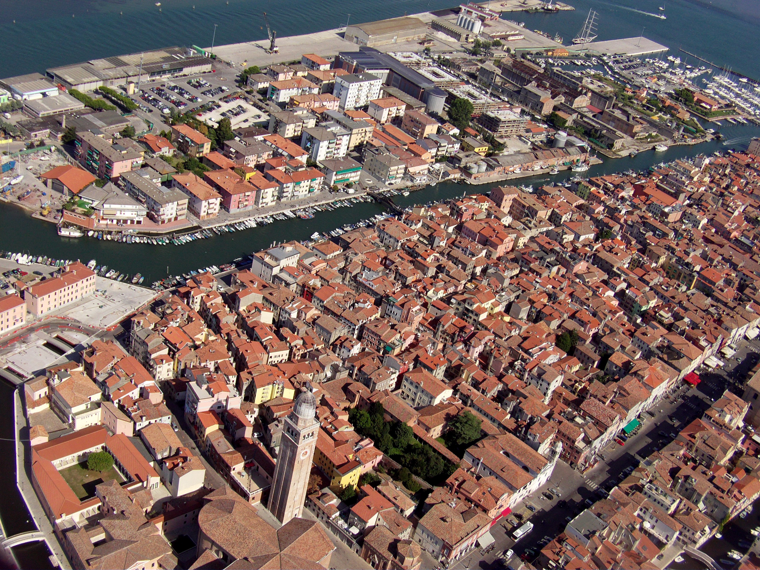 Airfoto of Chioggia Italy Downtown.